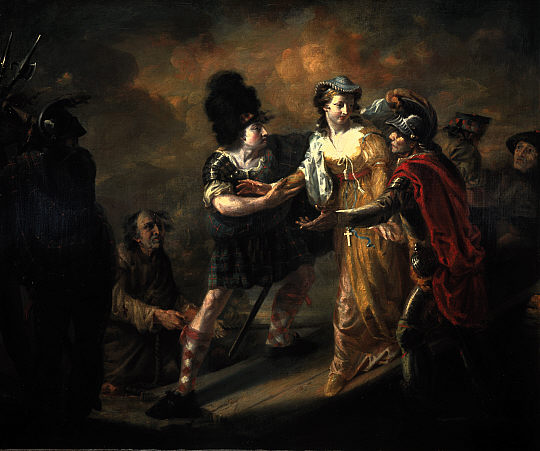 Mary, Queen of Scots Escaping from Loch Leven Castle (1805) William Craig Shirreff, oil on canvas